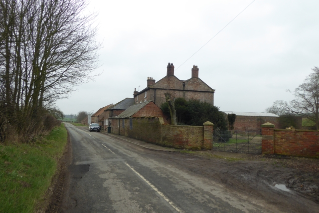 Thirkleby